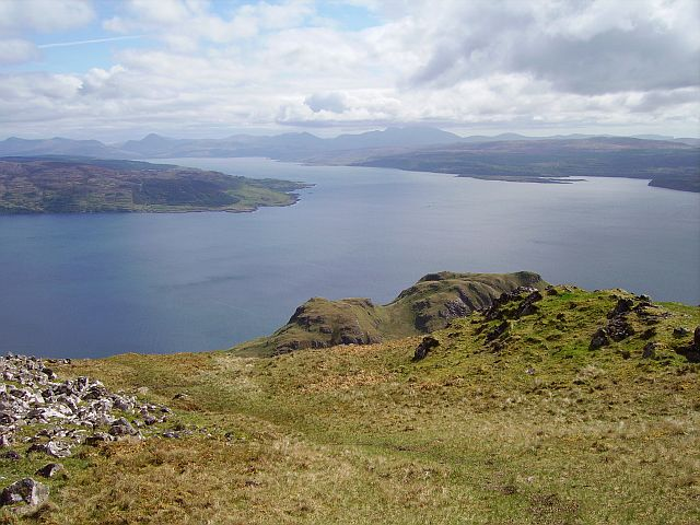 Sound of Mull from Ben Hiant. View across to Mull from near the summit. Sea bourne explorers would have found a dead end to the left, Loch Sunart, but the passage straight on is a through route.